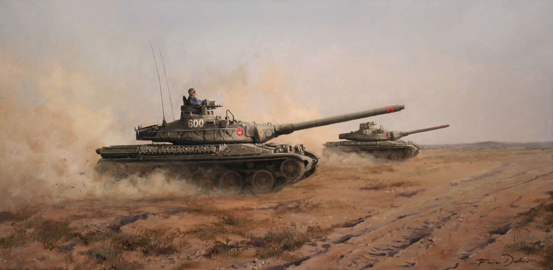 cuadro de la Brigada Acorazada por Ferrer-Dalmau